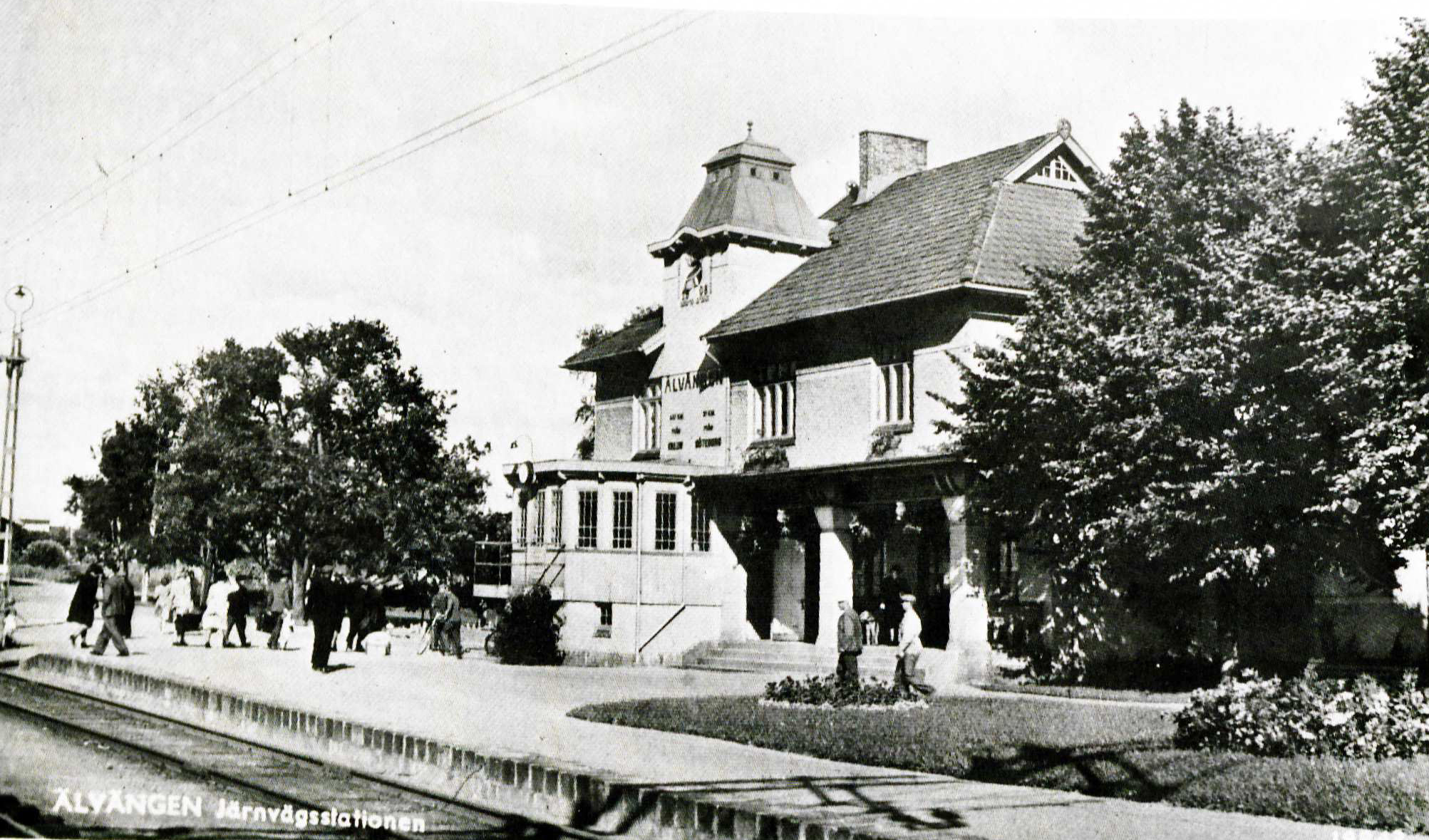 The former train station in Älvängen